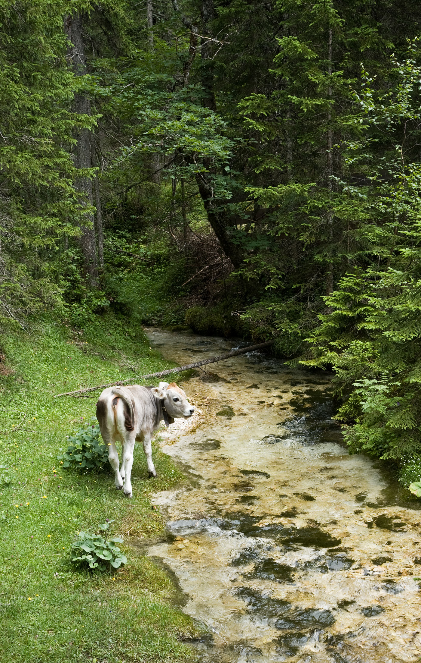 At Isarursprung, Hinterautal, Scharnitz, Austria